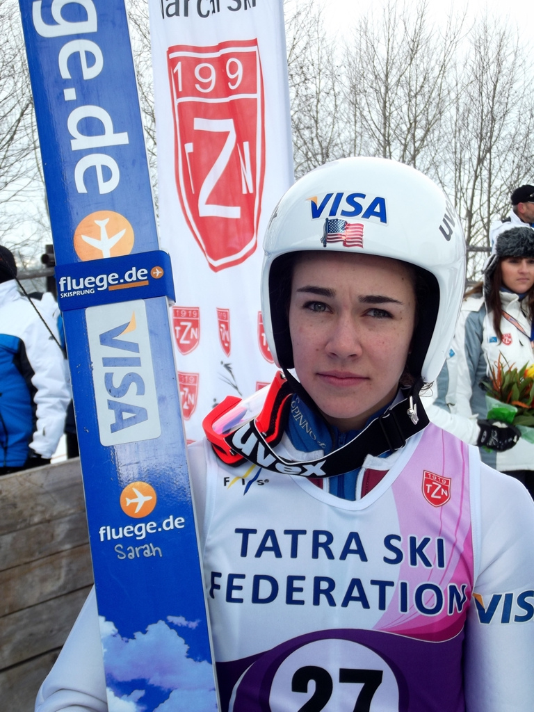 Sarah Hendrickson